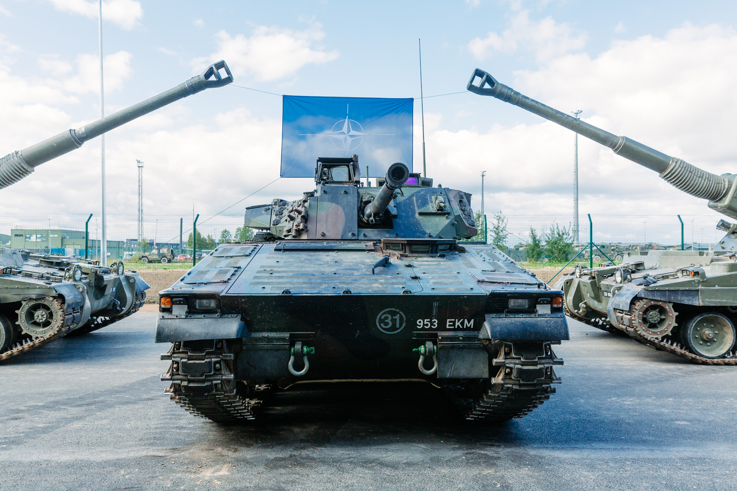 Press trip to visit the allied forces stationed in Tapa. Meetings with NATO units and key figures from the Estonian defence and allied forces